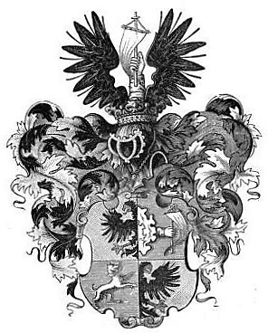 Coat of arms of (von) Focke family